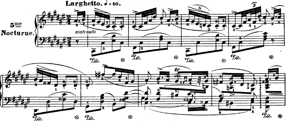 Opening bars of Chopin's Nocturne Op 15, No 2